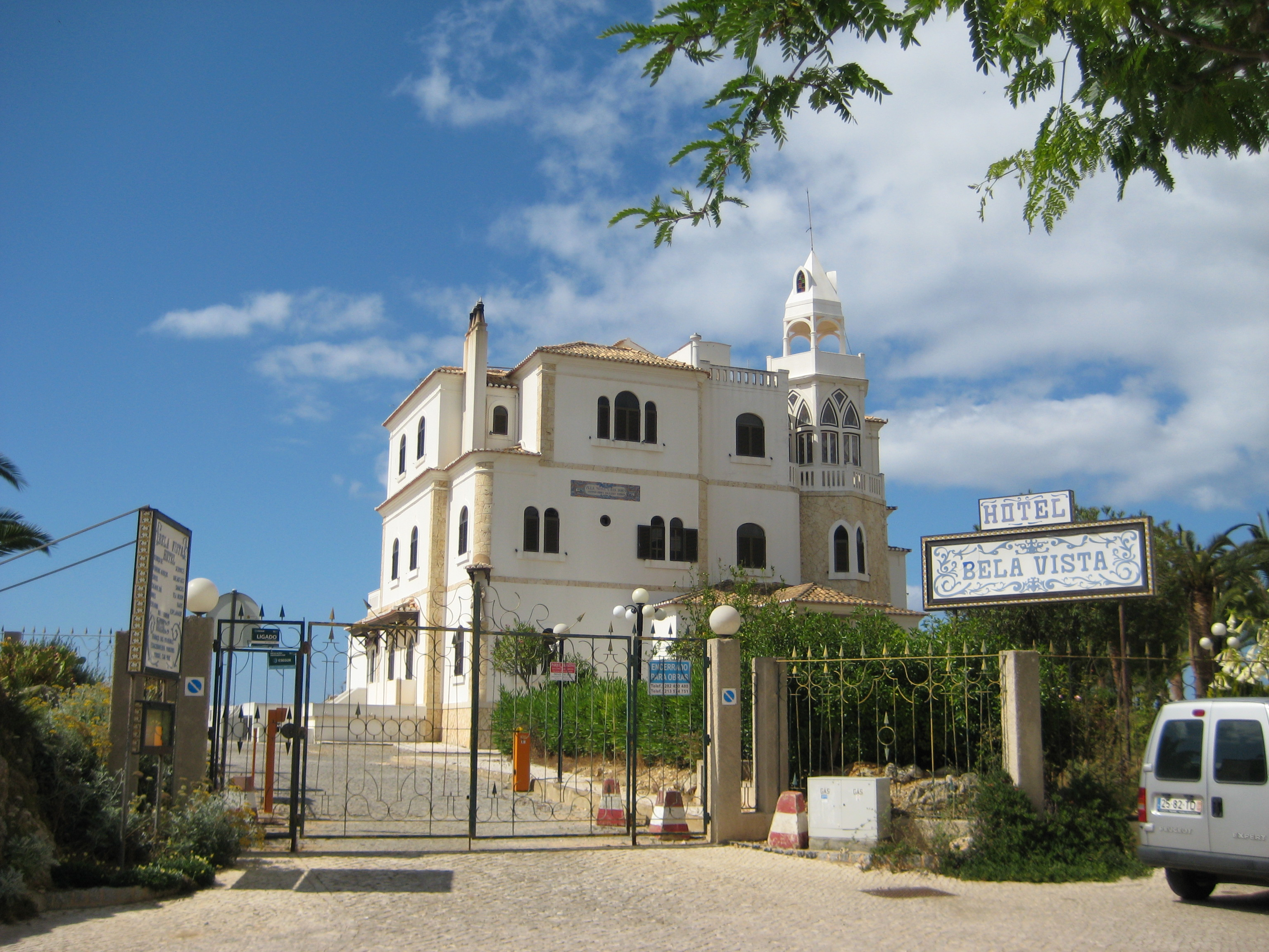 The Bela Vista Hotel and Spa located on Avenida Tomás Cabreira, Praia da Rocha,Portimão, Algarve, Portugal.